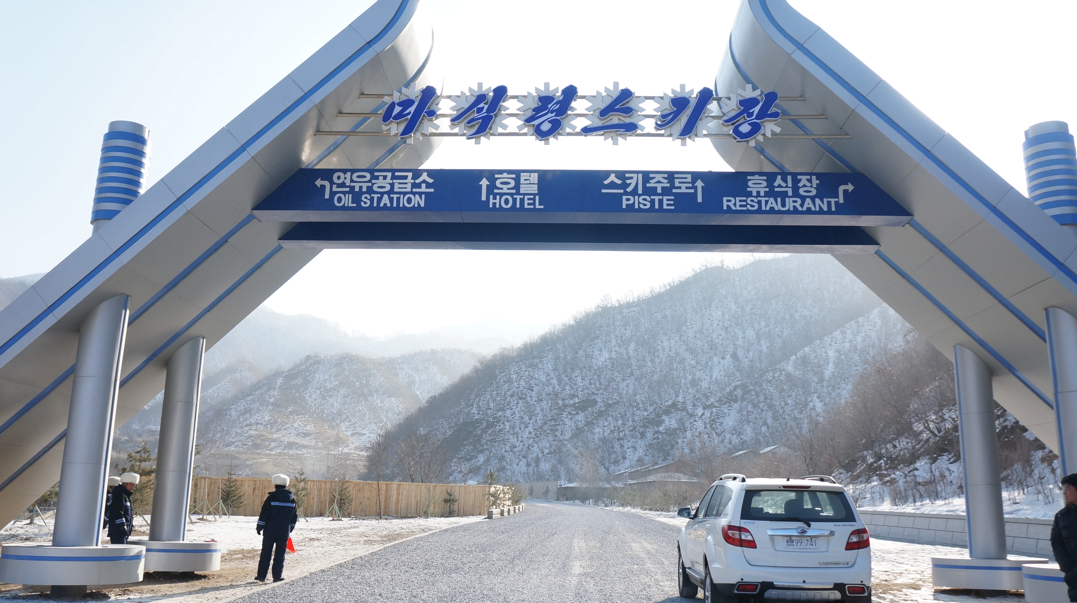 Masik Pass Ski Resort in North Korea